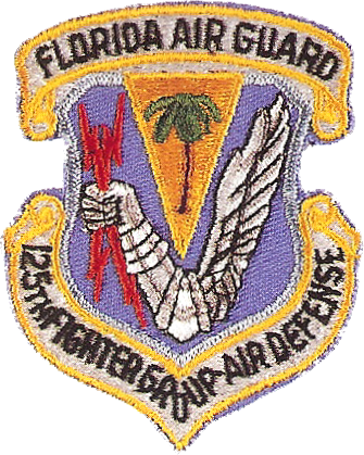 Emblem of the 125th Fighter-Interceptor Group (FL ANG - Air Defense Command)